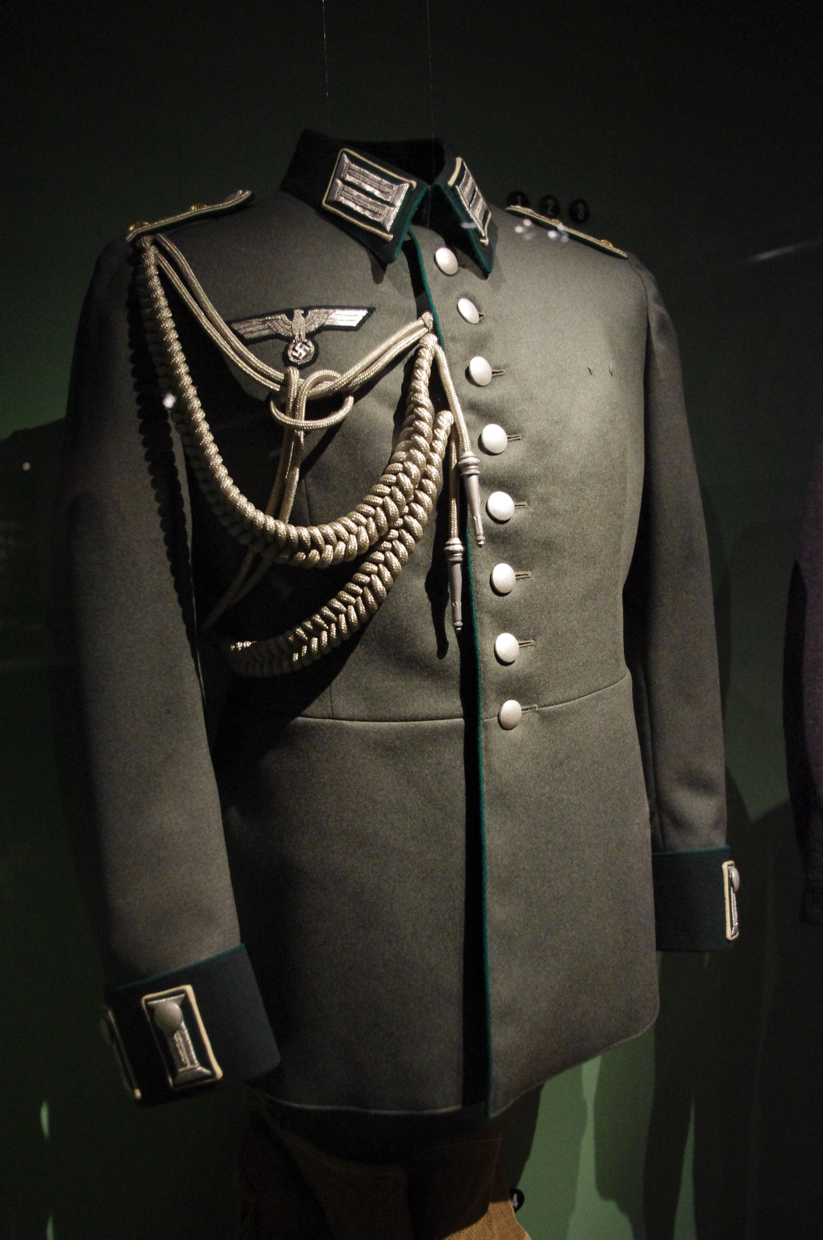 Tunic m/1935 for captains of the mountain ranger regiment, Germany. Parachute rangers and mountain rangers took part in the occupation of Norway. This tunic was worn by Andreas Hohrein, but it is unknown where he was stationed during the war.